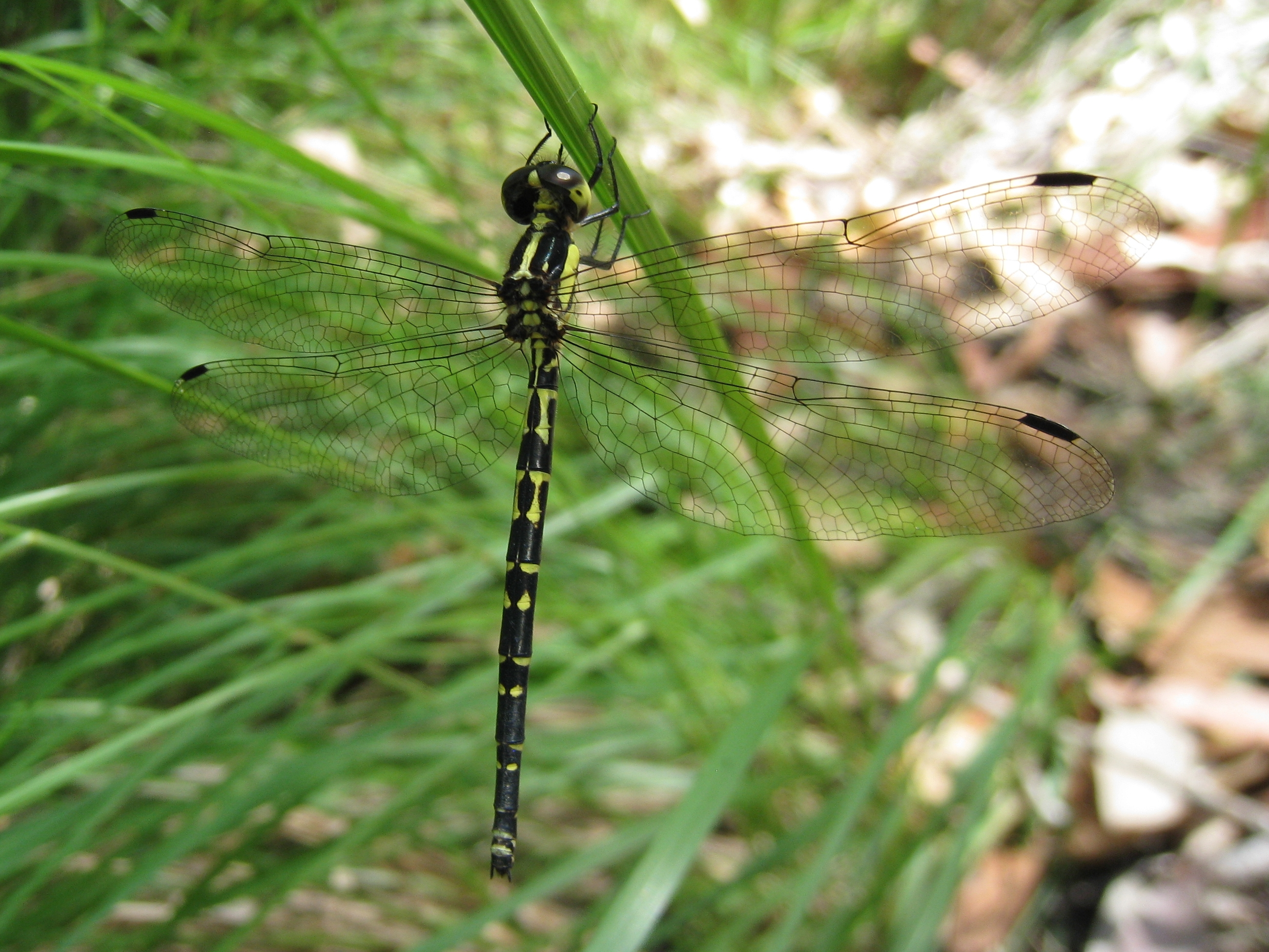 Yellow-tipped Tigertail, Choristhemis flavoterminata. Heathcote Creek, Heathcote National Park, NSW Australia, January 2011.